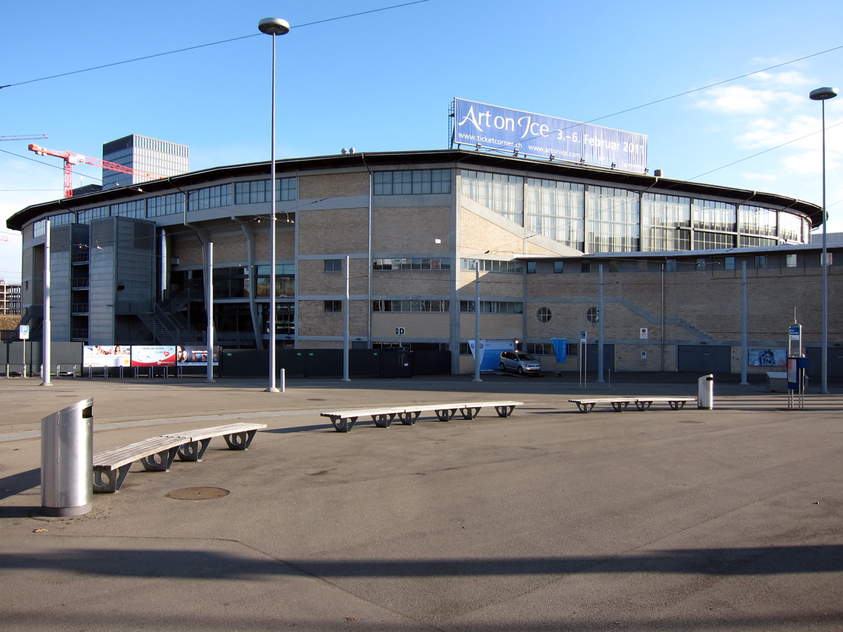 Hallenstadion in Zurich, Switzerland